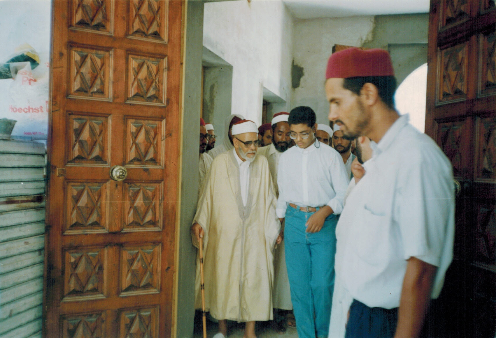 Shaykh Isma'il Hedfi Madani and his son Munawwar